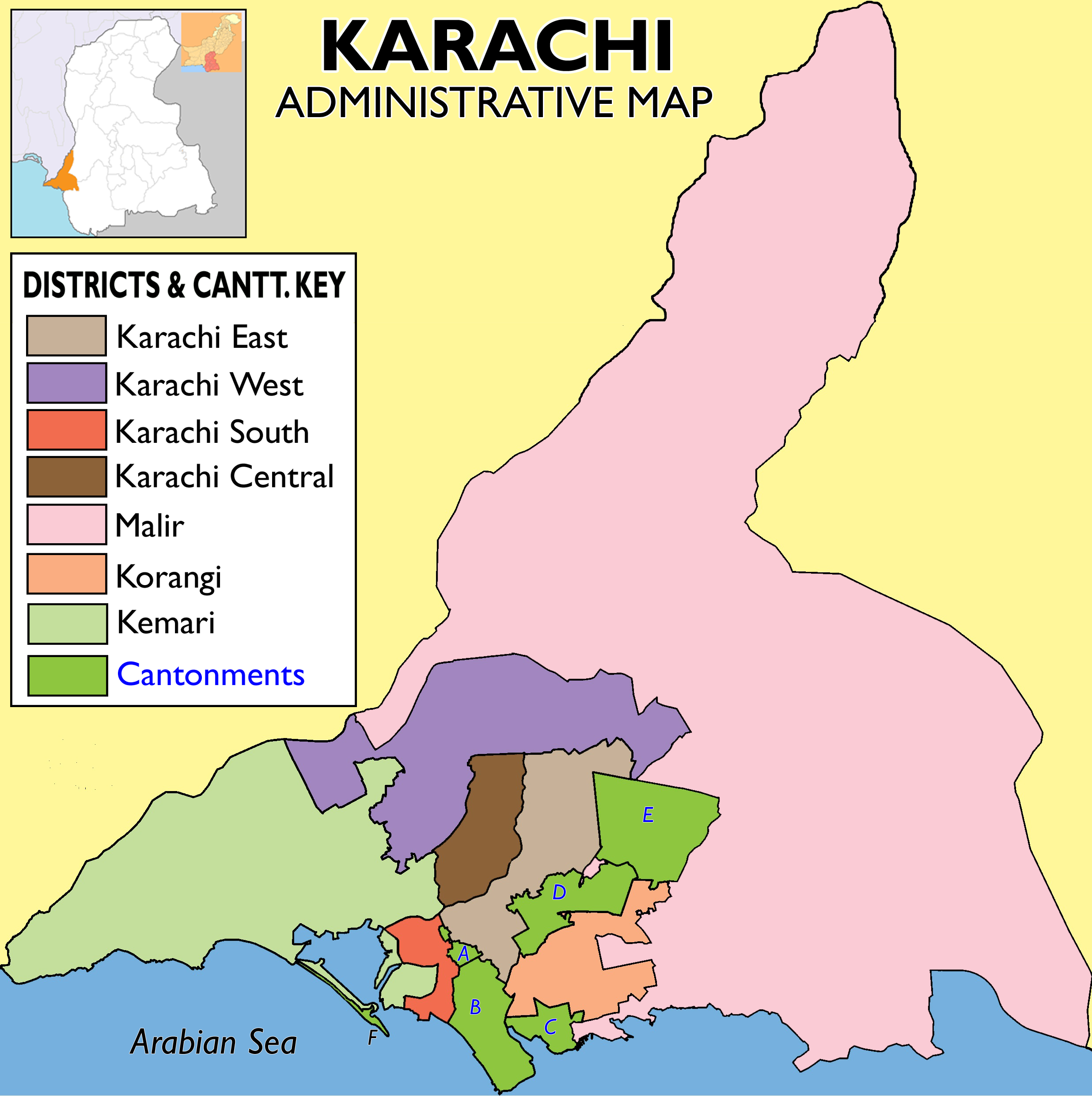 6 Districts, 18 towns and 6 cantonments of Karachi. DISTRICT SOUTH: 1. Lyari Town, 2. Saddar Town, DISTRICT EAST: 3. Jamshed Town, 4. Gulshan Town, DISTRICT CENTRAL: 5. Liaquatabad Town, 6. North Nazimabad Town, 7. Gulberg Town, 8. New Karachi Town, DISTRICT WEST: 9. Kemari Town, 10. SITE Town, 11. Baldia Town, 12. Orangi Town, DISTRICT MALIR: 13. Malir Town, 14. Bin Qasim Town, 15. Gadap Town. DISTRICT KORANGI: 16. Korangi Town, 17. Landhi Town, 18. Shah Faisal Town, CANTONMENTS: A. Karachi Cantonment, B. Clifton Cantonment, C. Korangi Creek Cantonment, D. Faisal Cantonment, E. Malir Cantonment, F. Manora Cantonment.